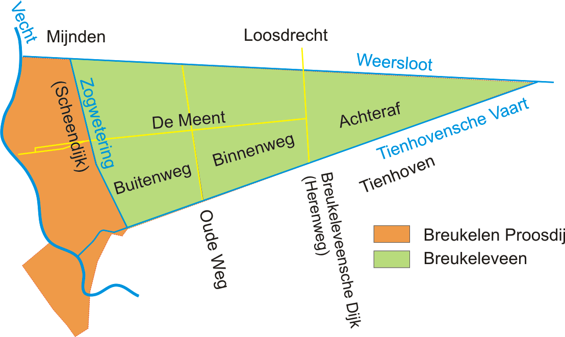 historical map of Breukeleveen in the province of Utrecht